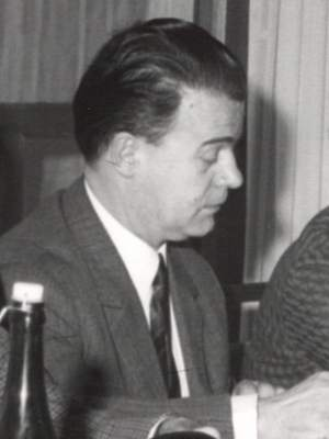 Inventarski broj: 1971 456 028